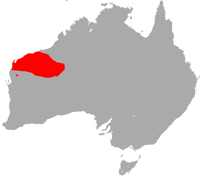 Little Red Kaluta (Dasykaluta rosamondae) range